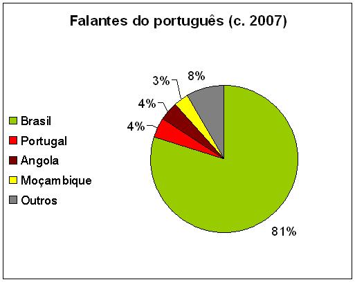 Pie chart reflecting the number of speakers of the Portuguese language by country. I created this file using data available on Wikipedia, and assuming the proportion of speakers to be of 100% of the total population in Brazil and Portugal, 60% in Angola and 40% in Mozambique.